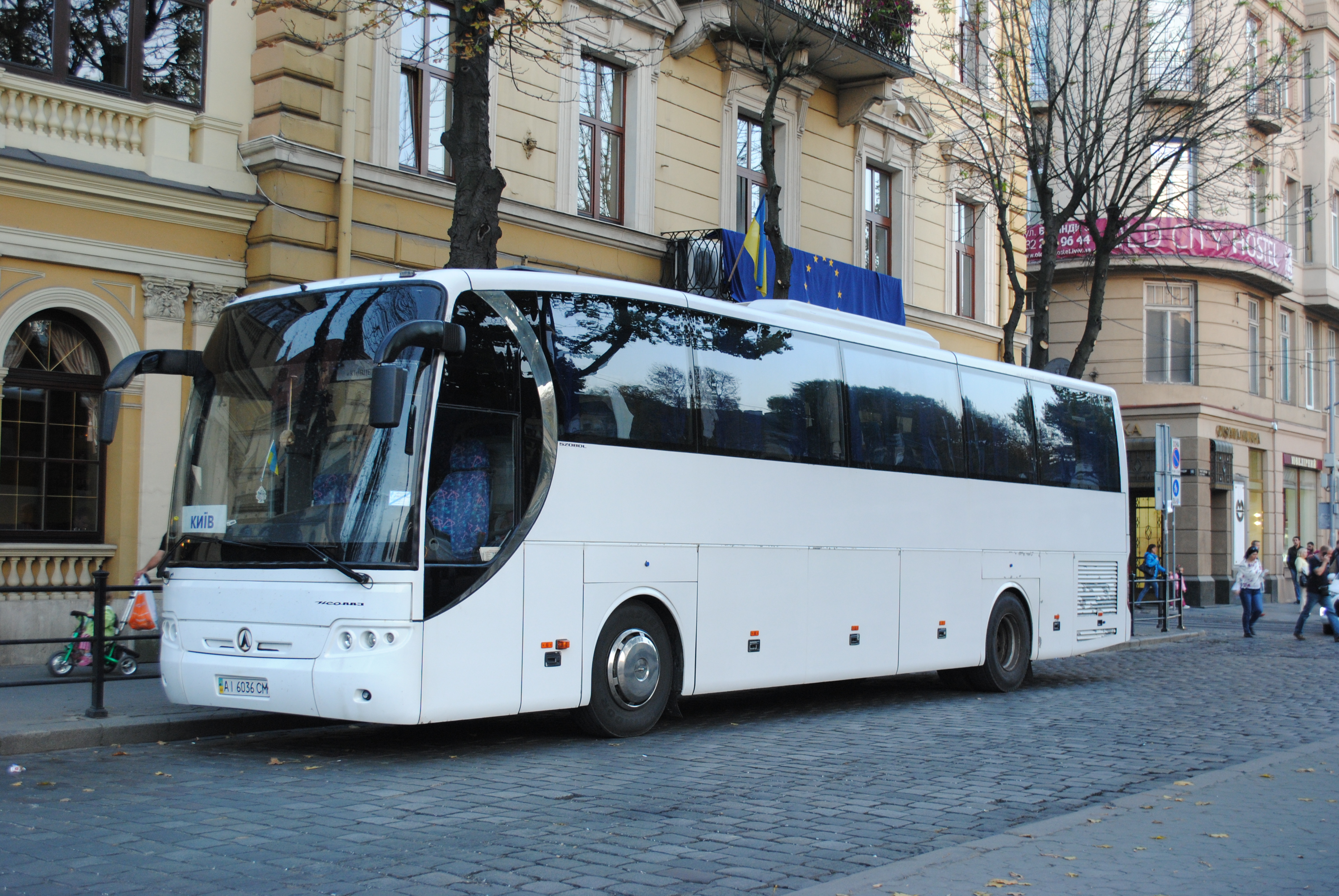 NeoLAZ-5208DL in Lviv, operating on Lviv - Kyiv line.